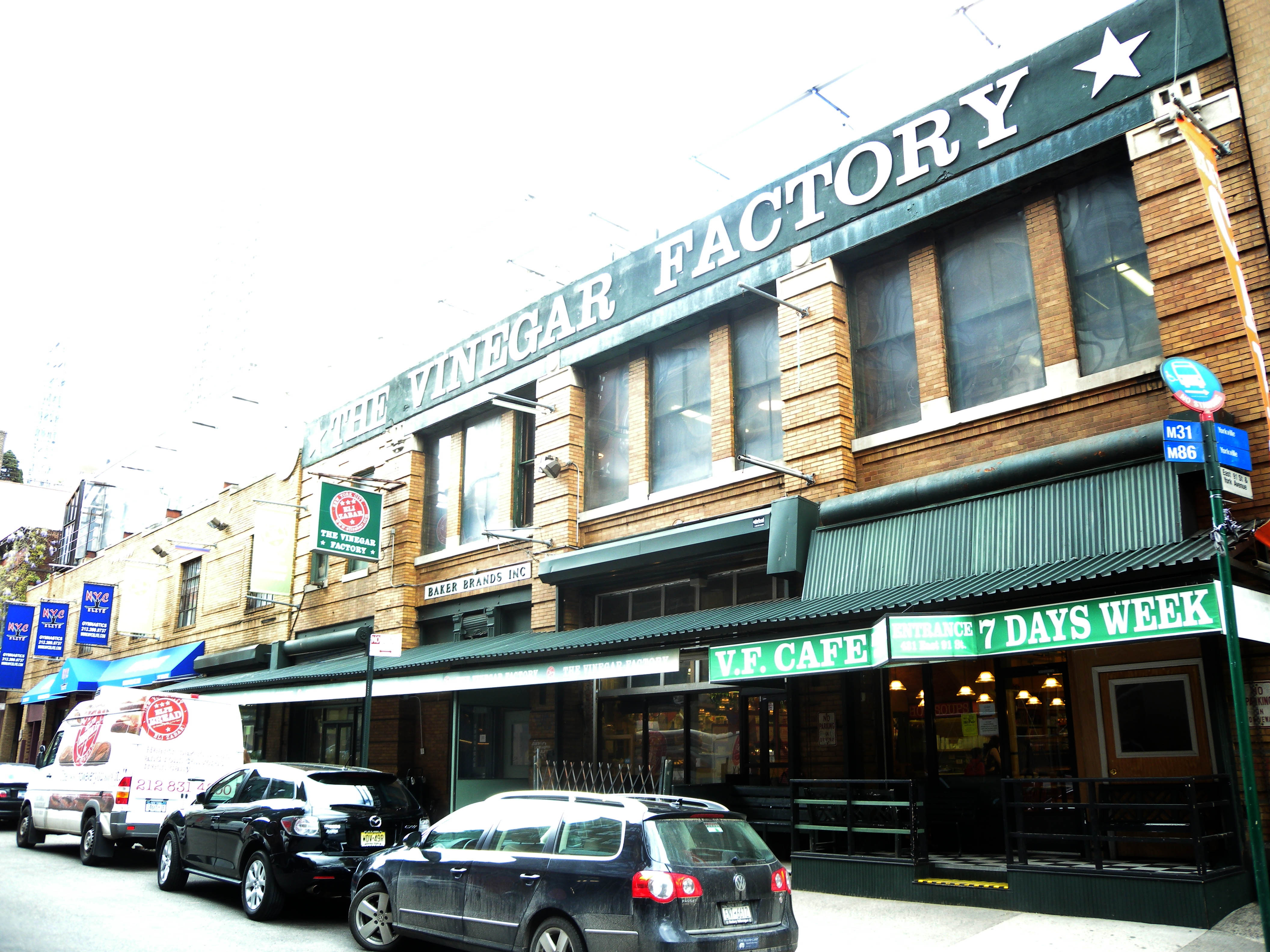 Looking north across E91st at The Vinegar Factory with overexposure due to photographer's error.